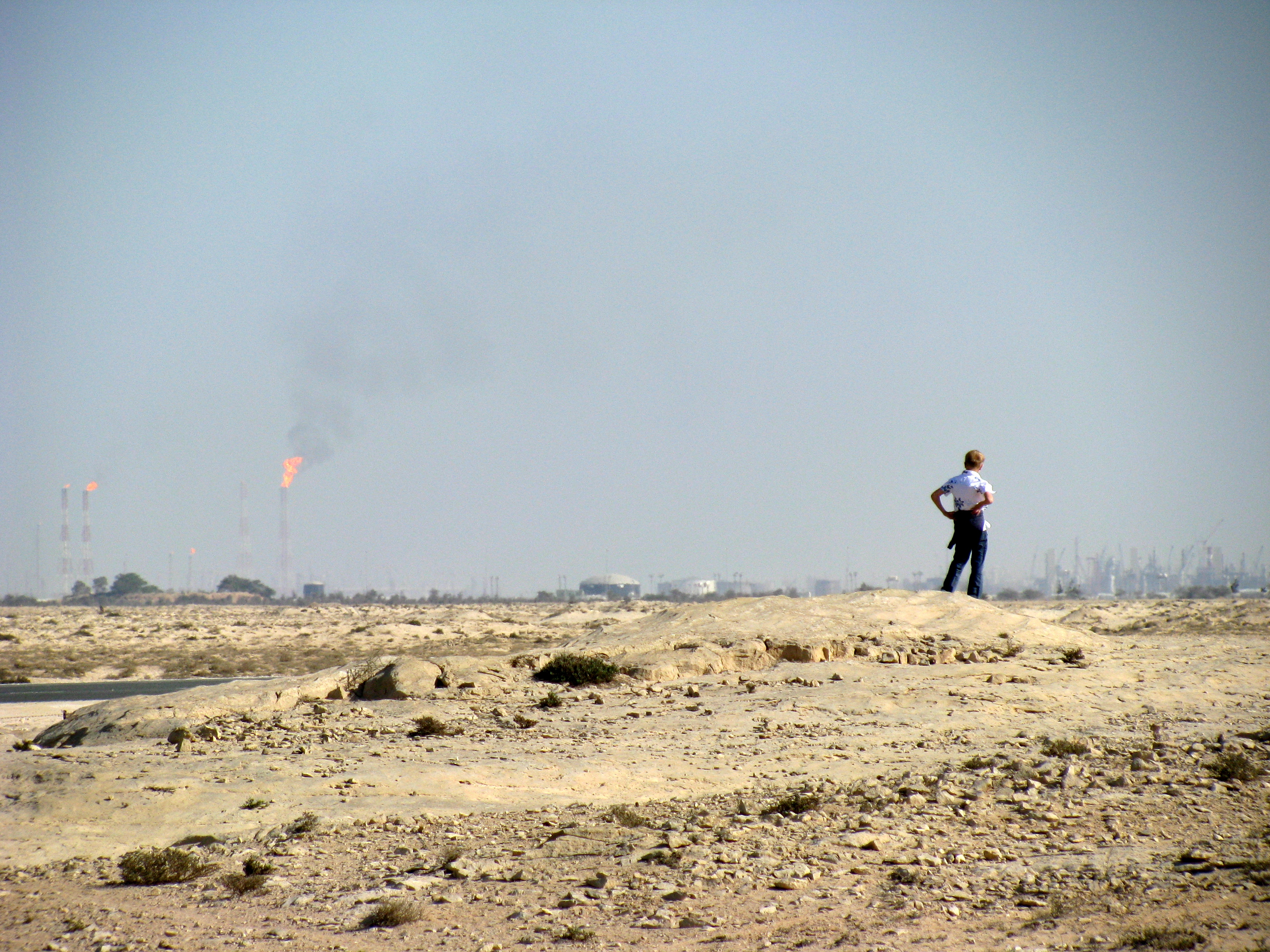 Owen on a ridge at Jebel Jassassiyeh, looking towards Ras Laffan - the major terminal for Qatar's natural gas.